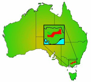 A distribution map for the Australian freshwater fish Galaxias arcanus, the riffle Galaxias